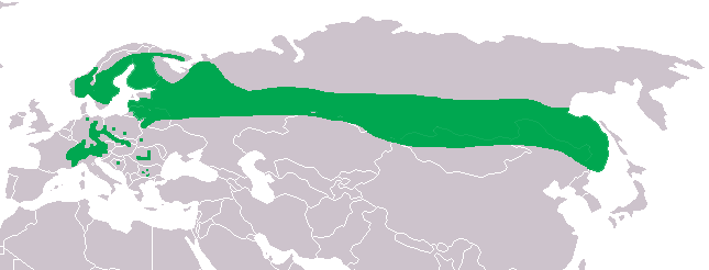 Constribution of the Eurasian Pygmy Owl (Glaucidium passerinum)